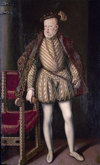 King Sebastian of Portugal (1554-1578).